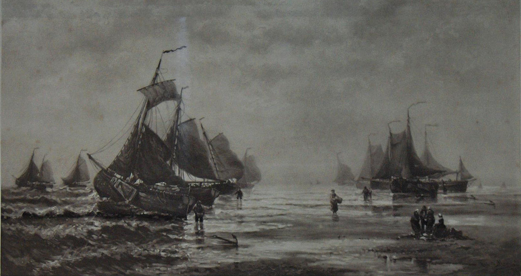 "Marée montante" (Rising tide) - engraving by Auguste Musin (1852-1923); private collection.